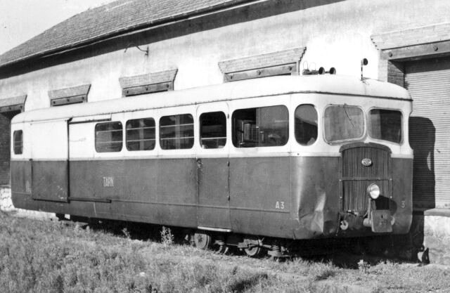 Verney A3 railcar of CFD Tarn